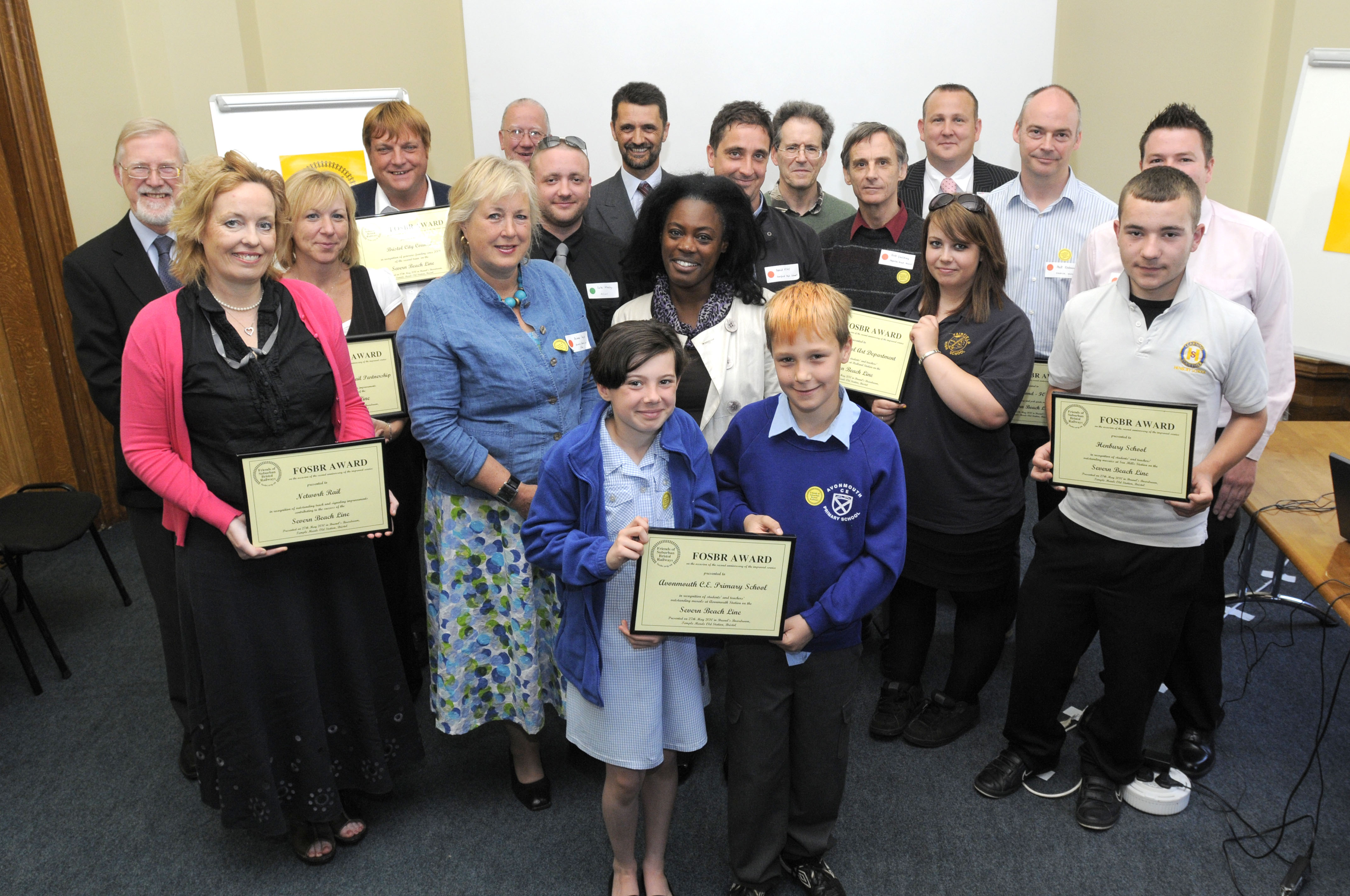 FOSBR awards ceremony at Brunel Boardroom of the Brunel’s Old Station at Temple Meads in May 2010